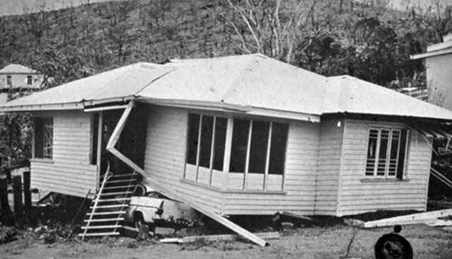 A home shifted off its foundation by Cyclone Althea in Townsland, Queensland, December 1971.